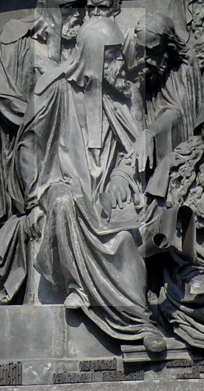 Alexius of Moscow on the Monument "Millennuim of Russia" in Veliky Novgorod